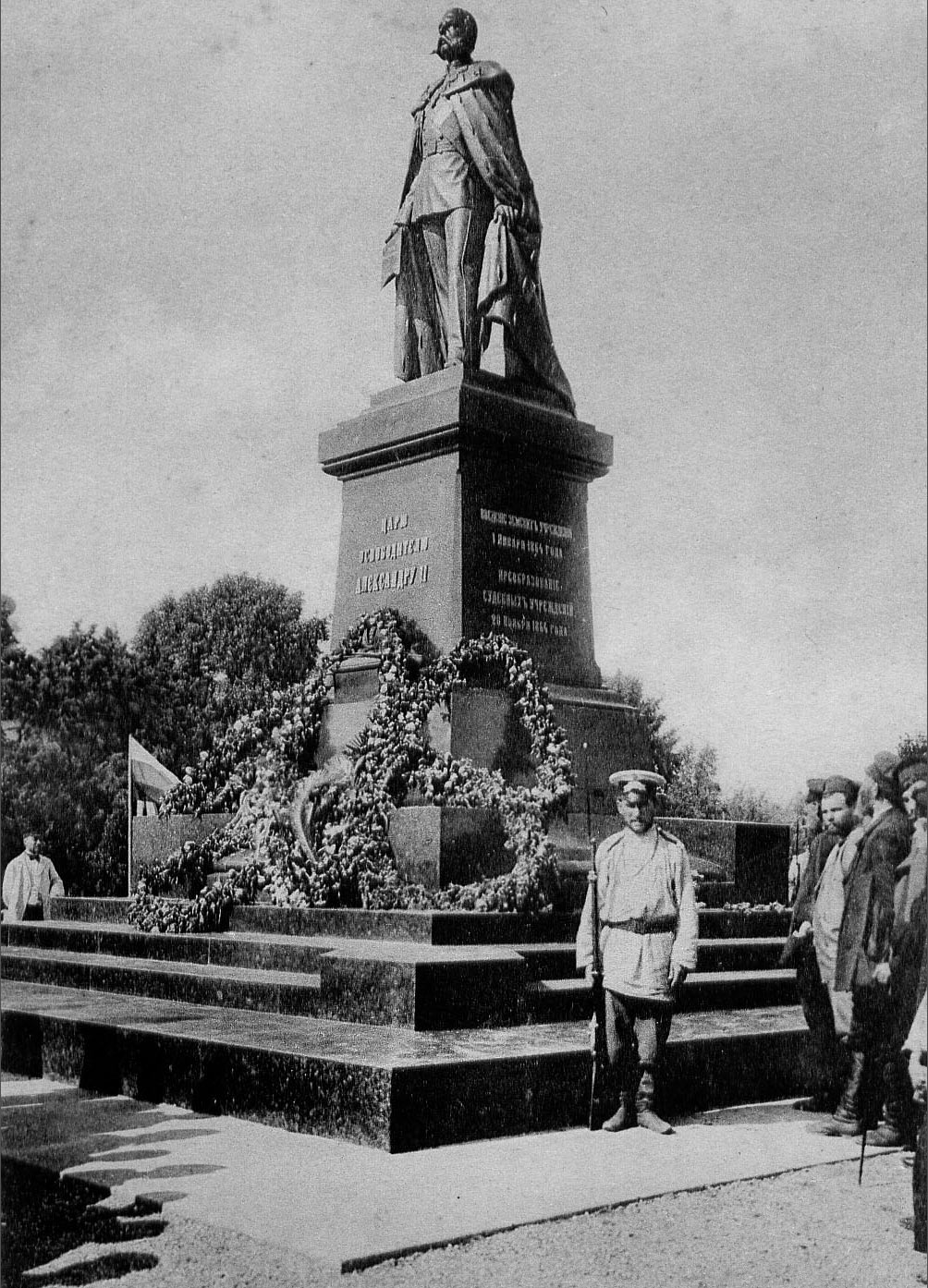 Momument to the Emperor of Russia Alexander II in Nizhny Novgorod